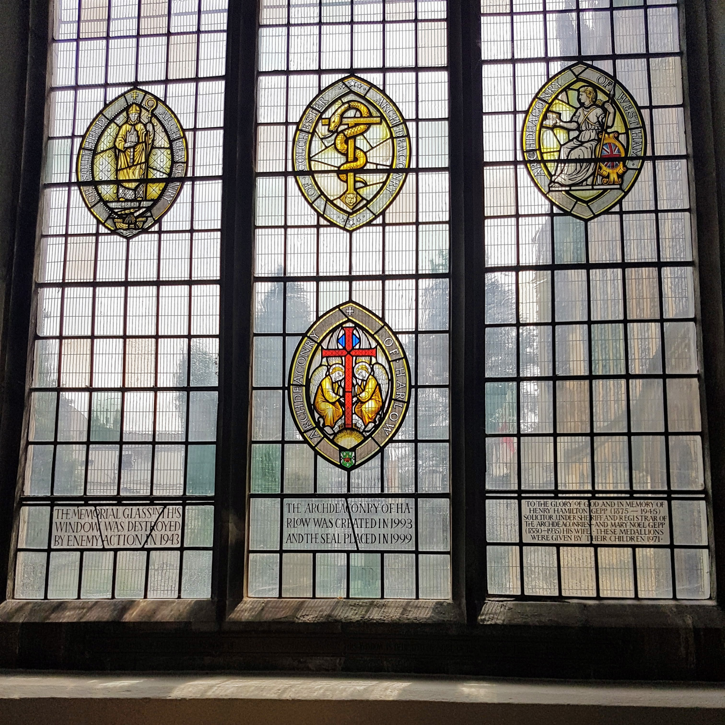 A window on the south side of Chelmsford Cathedral, showing the seals of the four pre-2013 archdeaconries of the diocese. (nb: the Archdeaconry of Southend which is shown is not the same archdeaconry as now bears that name; that archdeaconry was renamed the Archdeaconry of Chelmsford in 2013.)